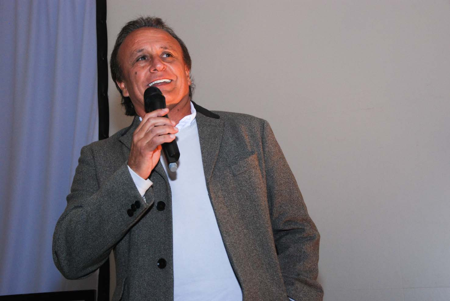 Miguel Del Sel candidato a Diputado Nacional